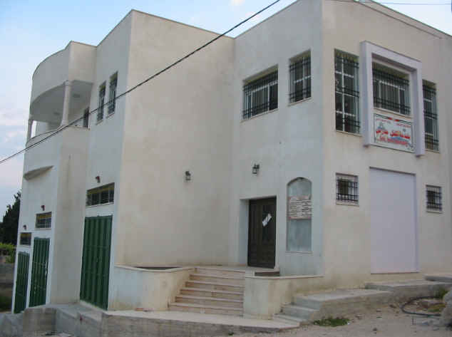 Kifl Hares city hall